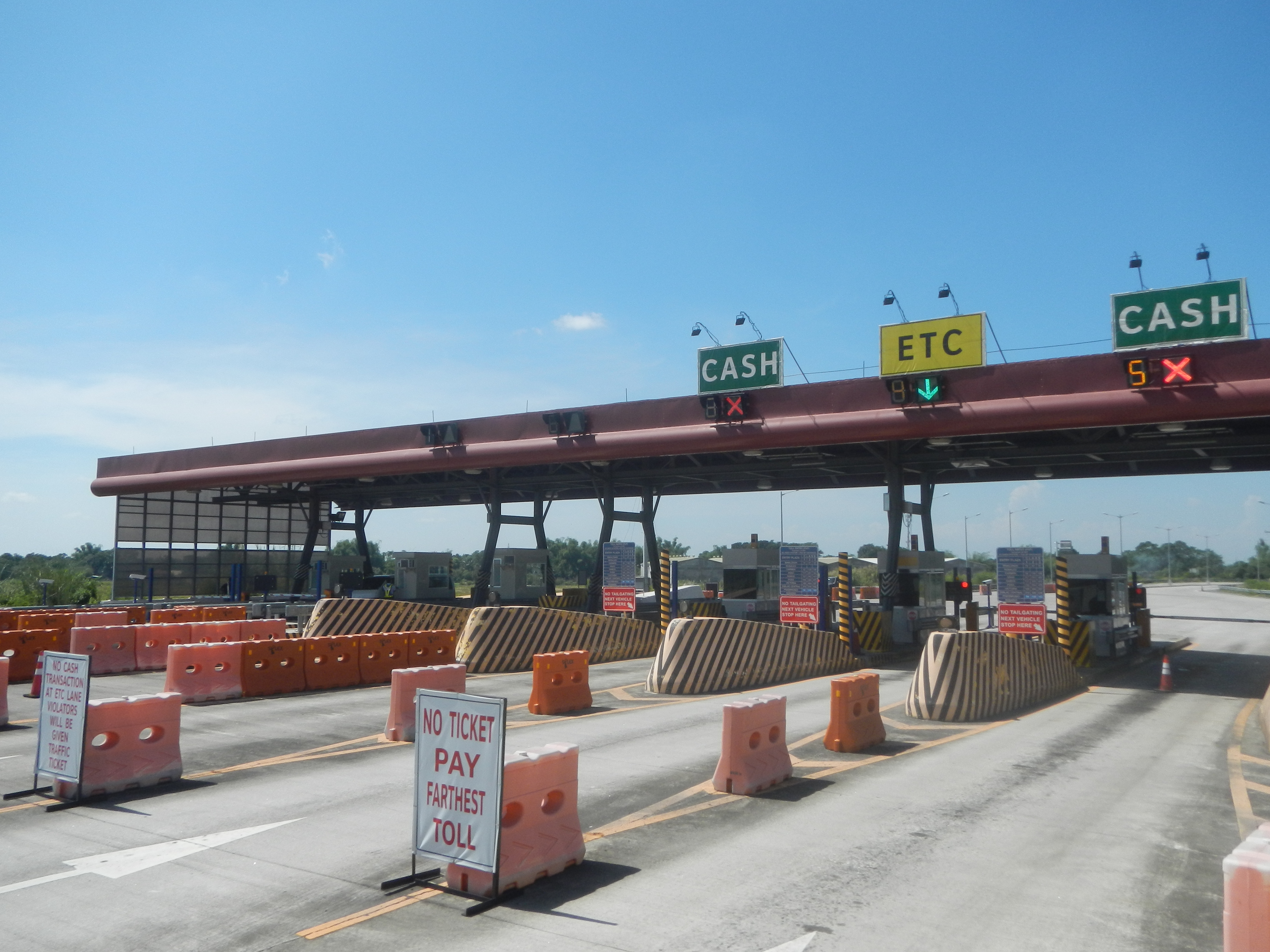 Carmen Enty-Exit Toll Plaza & Interchange TPLEx 15°51'19"N 120°37'28"E Tarlac–Pangasinan–La Union Expressway Tarlac–Pangasinan–La Union Expressway Toll Plaza - Tarlac Barrier southernmost terminal Paddy-sugar cane fields, grasslands and trees in Tarlac–Pangasinan–La Union Expressway photos taken from an open left side window of an Air-con bus from Dau, Mabalacat Terminal to NLEX-SCTEX-TIPLEX Carmen exit, Rosales, Pangasinan from MacArthur Highway Philippine highway network (Note: Judge Florentino Floro, the owner, to repeat, Donor Florentino Floro of all these photos hereby donate gratuitously, freely and unconditionally Judge Floro all these photos to and for Wikimedia Commons, exclusively, for public use of the public domain, and again without any condition whatsoever).